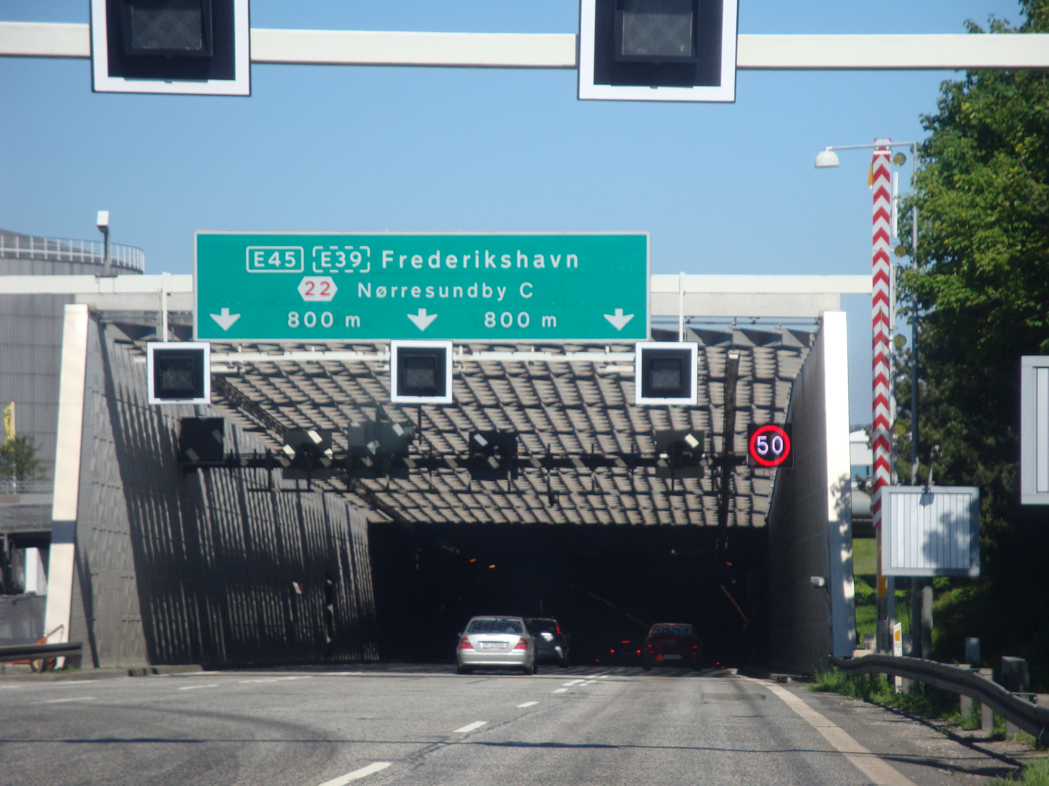 South portal of the highway tunnel at Limfjord, Denmark